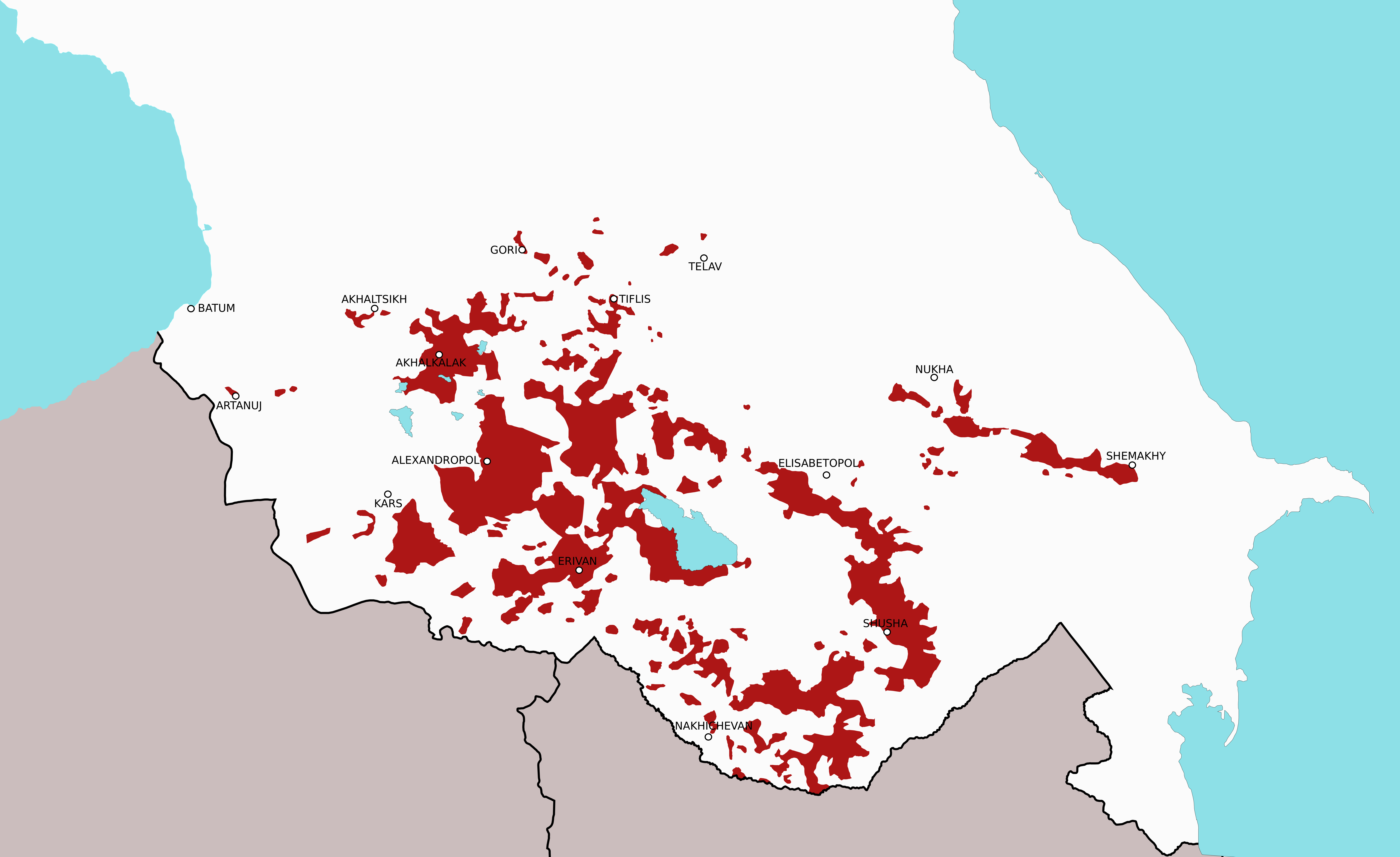 Areas with ethnic Armenian prularity, (Russian Empire) - 1880